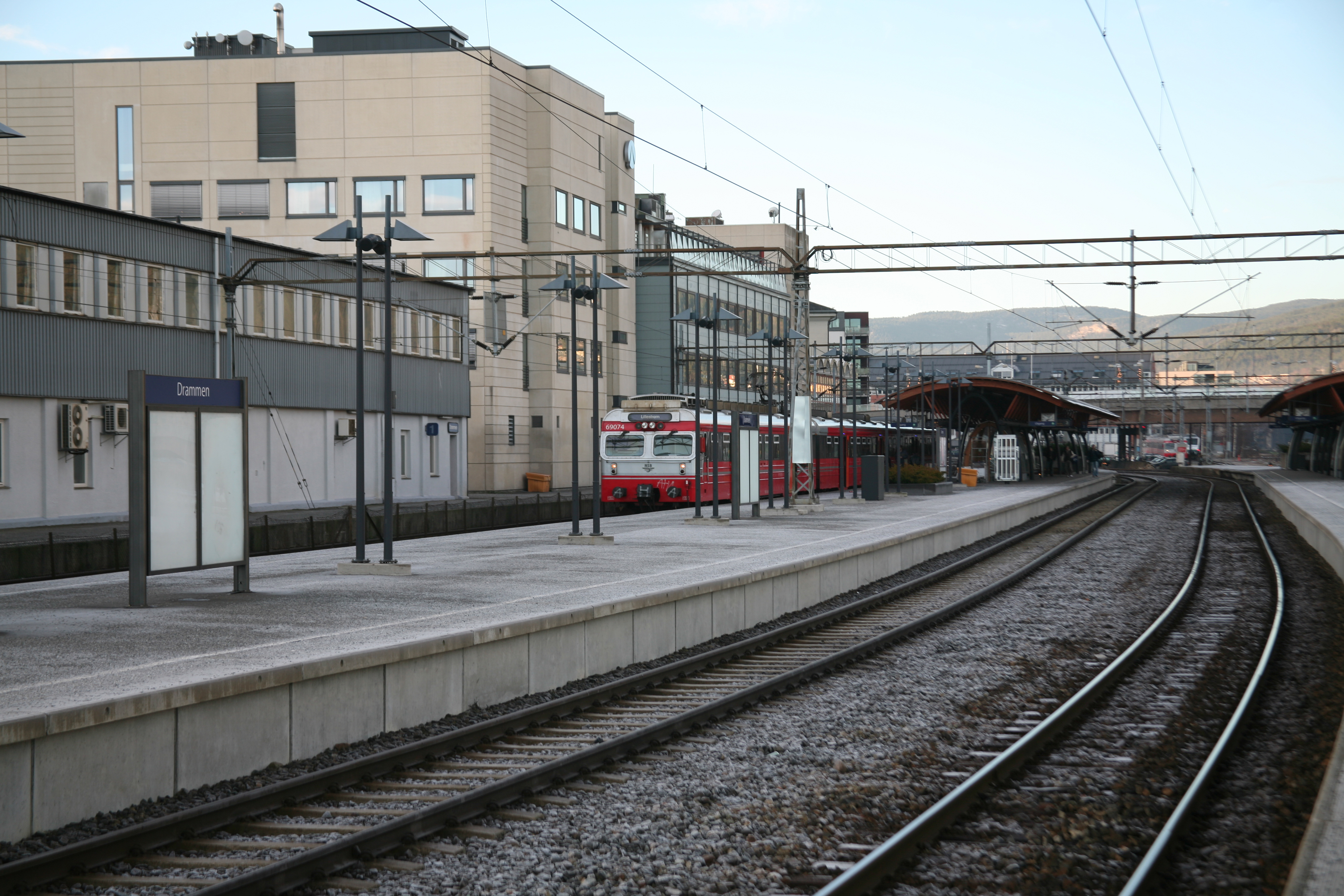 Picture of Drammen railway station